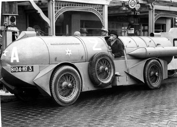 René Stapp, racing driver, and his 1932 land speed record car at Daytona Beach, Florida.